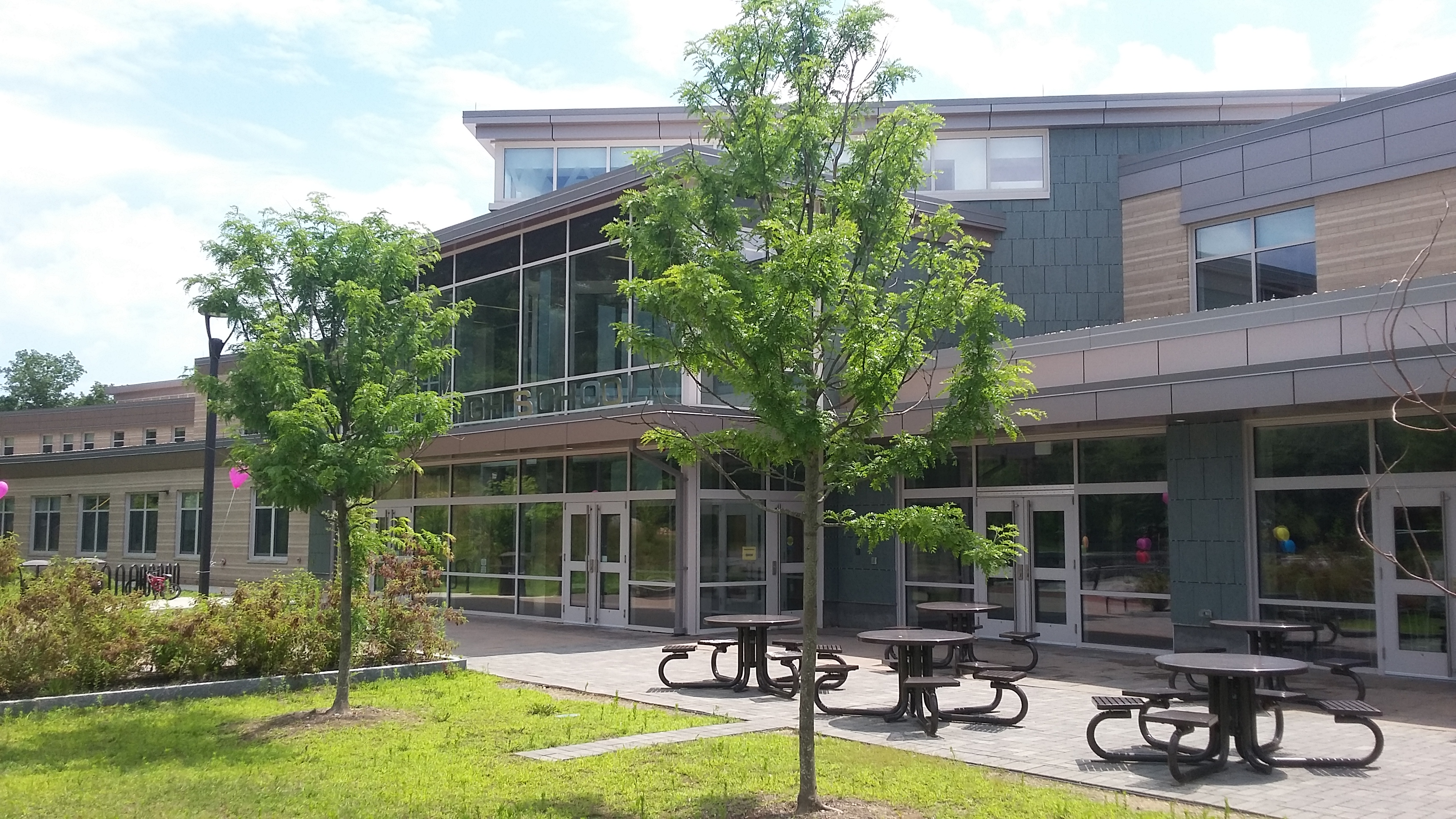 Maynard High School in Maynard Massachusetts MA USA built in 2014